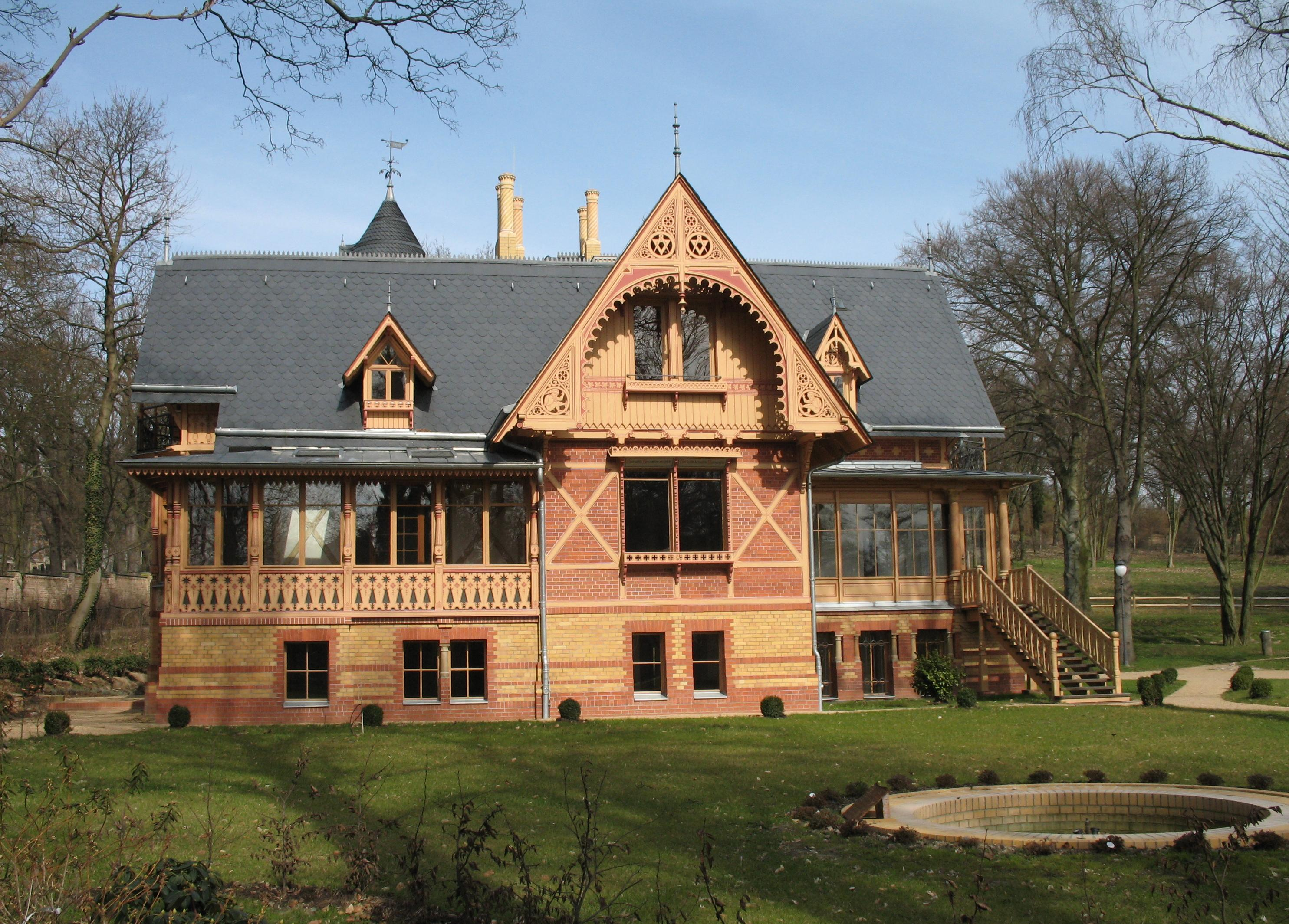 „Villa Gericke“ in Potsdam in Brandenburg, Germany